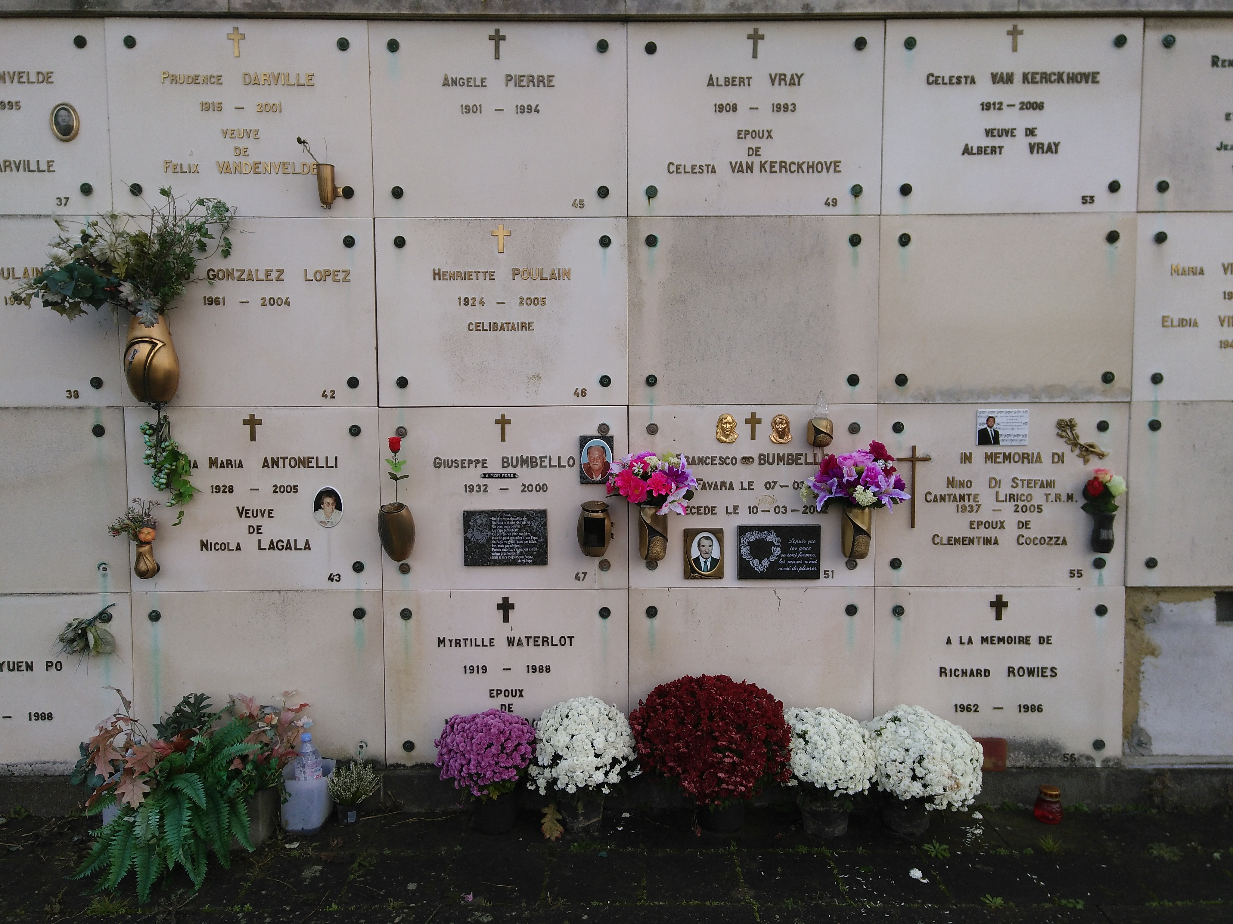 Gallery graves, Cemetary of Saint-Gilles, Brussels.